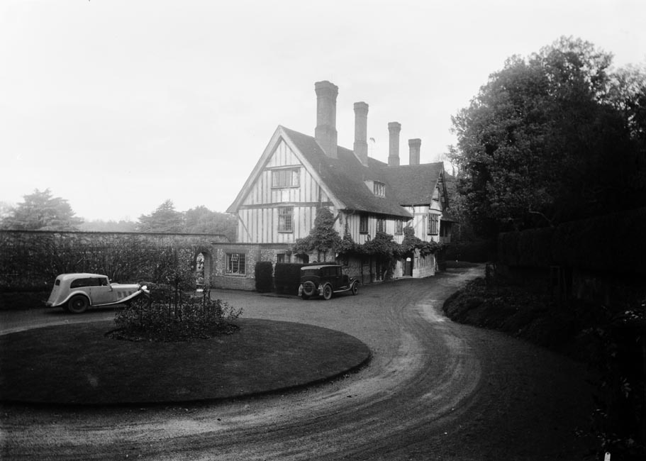 View of Hardwick Manor House, one of several houses on the Hardwick House estate near Bury St Edmunds, Suffolk, England.